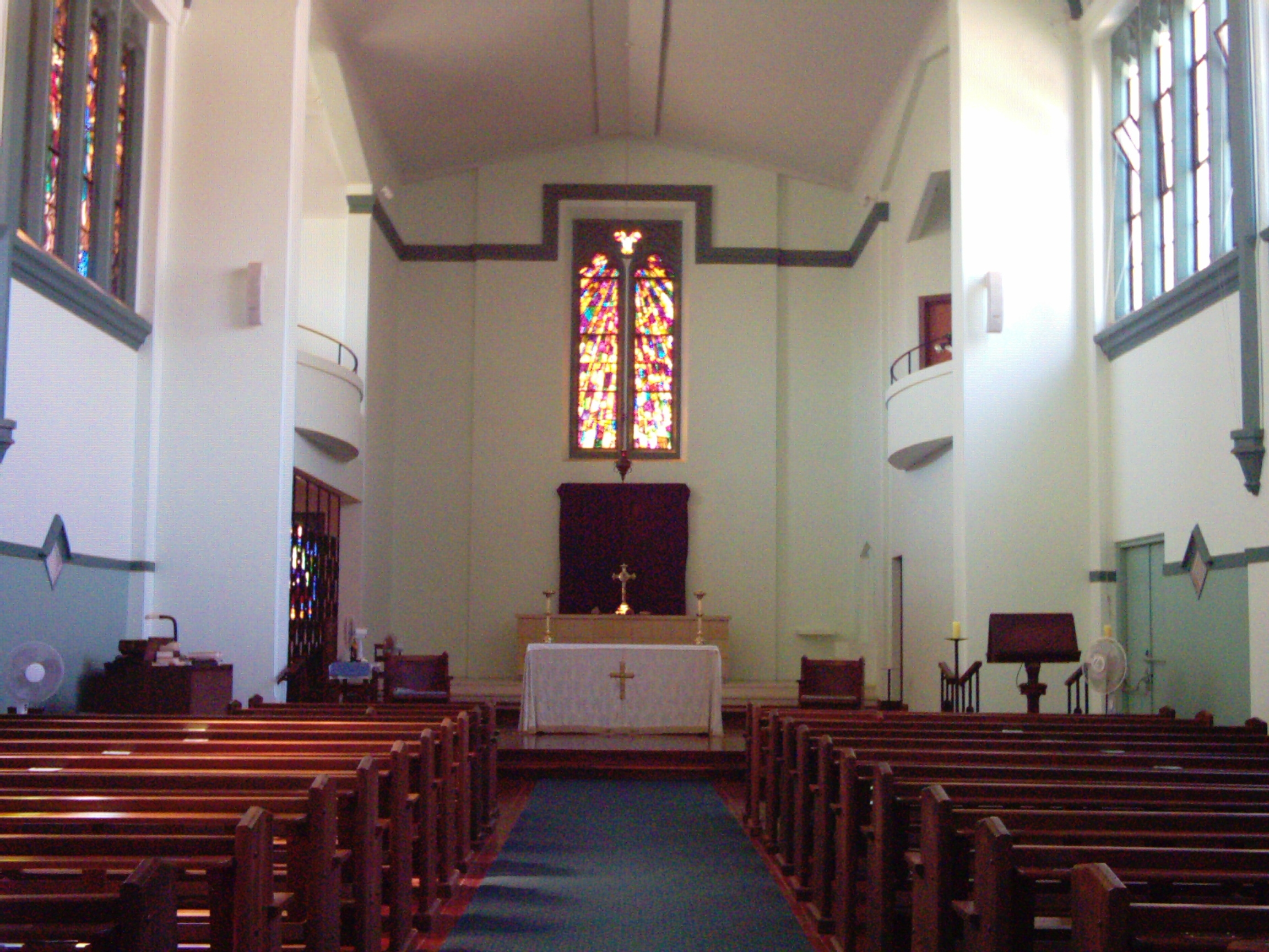 St Marys Church in South Perth, Western Australia